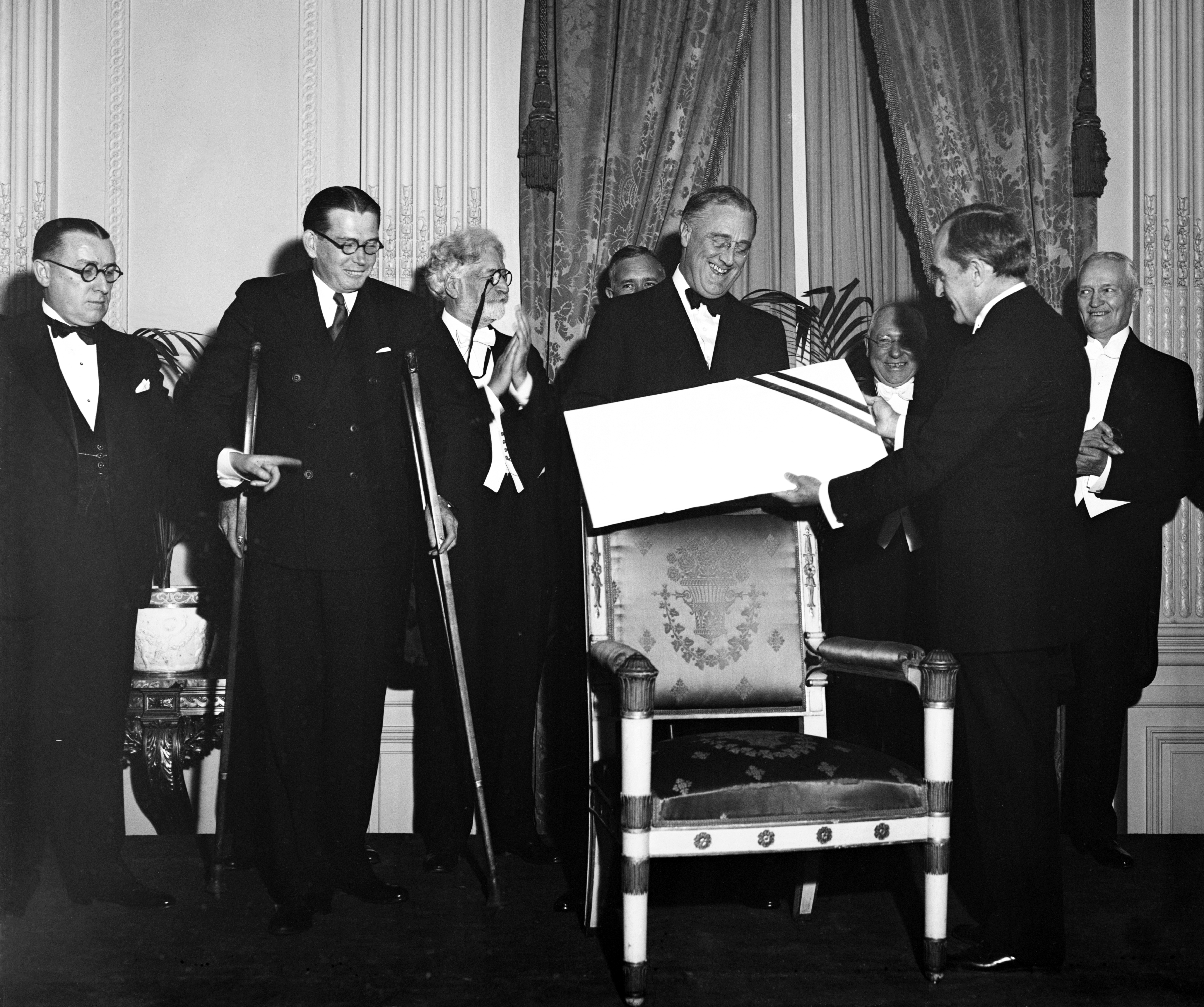 Photograph of President Franklin D. Roosevelt being presented with a check for $1 million, the proceeds for the first national President's Birthday Ball event to benefit the Georgia Warm Springs Foundation (reconstituted in 1938 as the National Foundation for Infantile Paralysis, later called the March of Dimes)Date is based on a news story in the Woodland Daily Democrat, titled "President's Ball by Nation Nets Million for Fund" (May 10, 1934)Full title of image at the Library of Congress reads as follows:PRESIDENT GETS 'BIRTHDAY BALL' MILLION DOLLAR CHECK. AT THE WHITE HOUSE LAST NIGHT PRESIDENT ROOSEVELT RECEIVED A MILLION-DOLLAR CHECK FROM THE COMMITTEE IN CHARGE OF HIS BIRTHDAY CELEBRATION THROUGHOUT THE COUNTRY LAST JANUARY. REAR ADMIRAL CARY T. GRAYSON, CHAIRMAN OF THE BIRTHDAY CELEBRATION IS SHOWN MAKING THE PRESENTATION TO THE CHIEF EXECUTIVE AFTER WHICH THE CHECK WAS IMMEDIATELY TURNED OVER TO THE WARM SPRINGS FOUNDATION FOR SUFFERERS OF INFANTILE PARALYSIS. ON THE LEFT IN THE PICTURE IS DR. BASIL O'CONNOR, OF THE FOUNDATION, AND ARTHUR CARPENTER, RESIDENT TREASURER